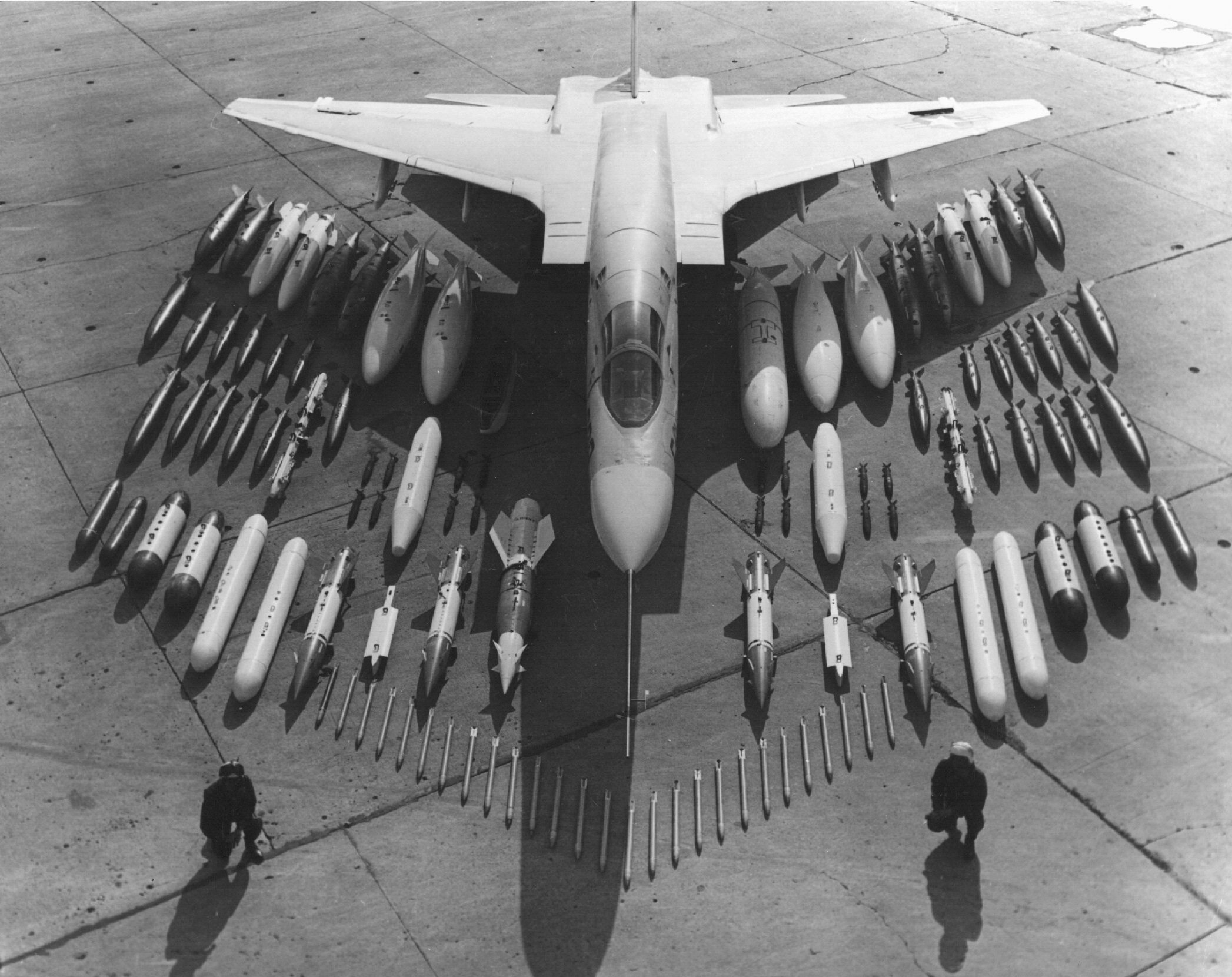 A U.S. Navy North American A3J-2 Vigilante with weapons array at North American Aviation at Columbus, Ohio (USA). The first YA-5C (BuNo 149300) flew on 29 April 1962, however the A-5B/A-5C bomber variant was never produced. Eventually, all A-5B/YA-5Cs built and 42 of 57 A-5As were converted to RA-5C reconnaissance aircraft.